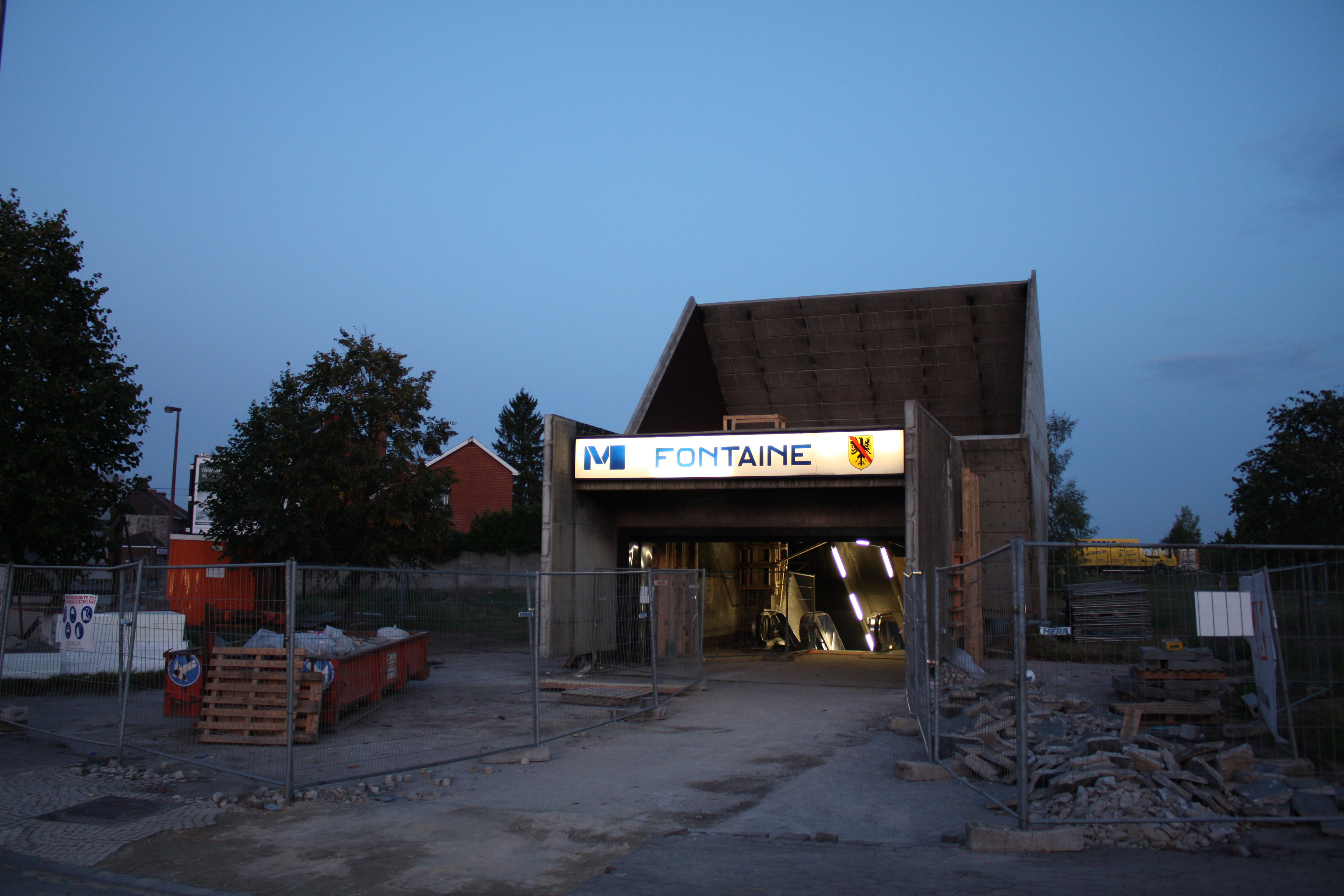 Fontaine station outside Shot on 2009-09-19 on a tour of Charleroi's subway, kindly hosted by TEC-Charleroi.